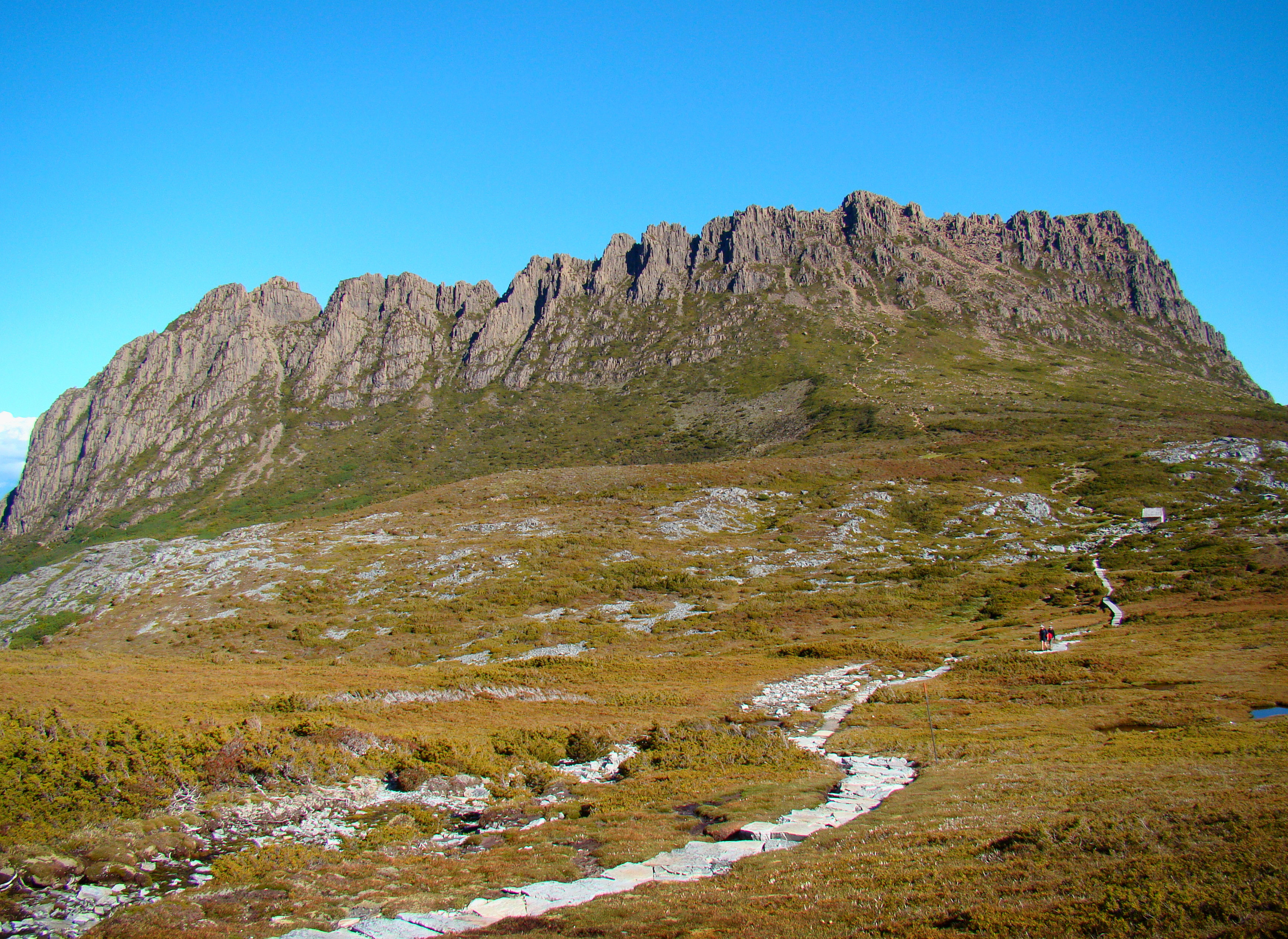 The Overland Track winding past Cradle Mountain on a midsummer day. The cabin seen in the right centre is Kitchen Hut, only for emergency use.